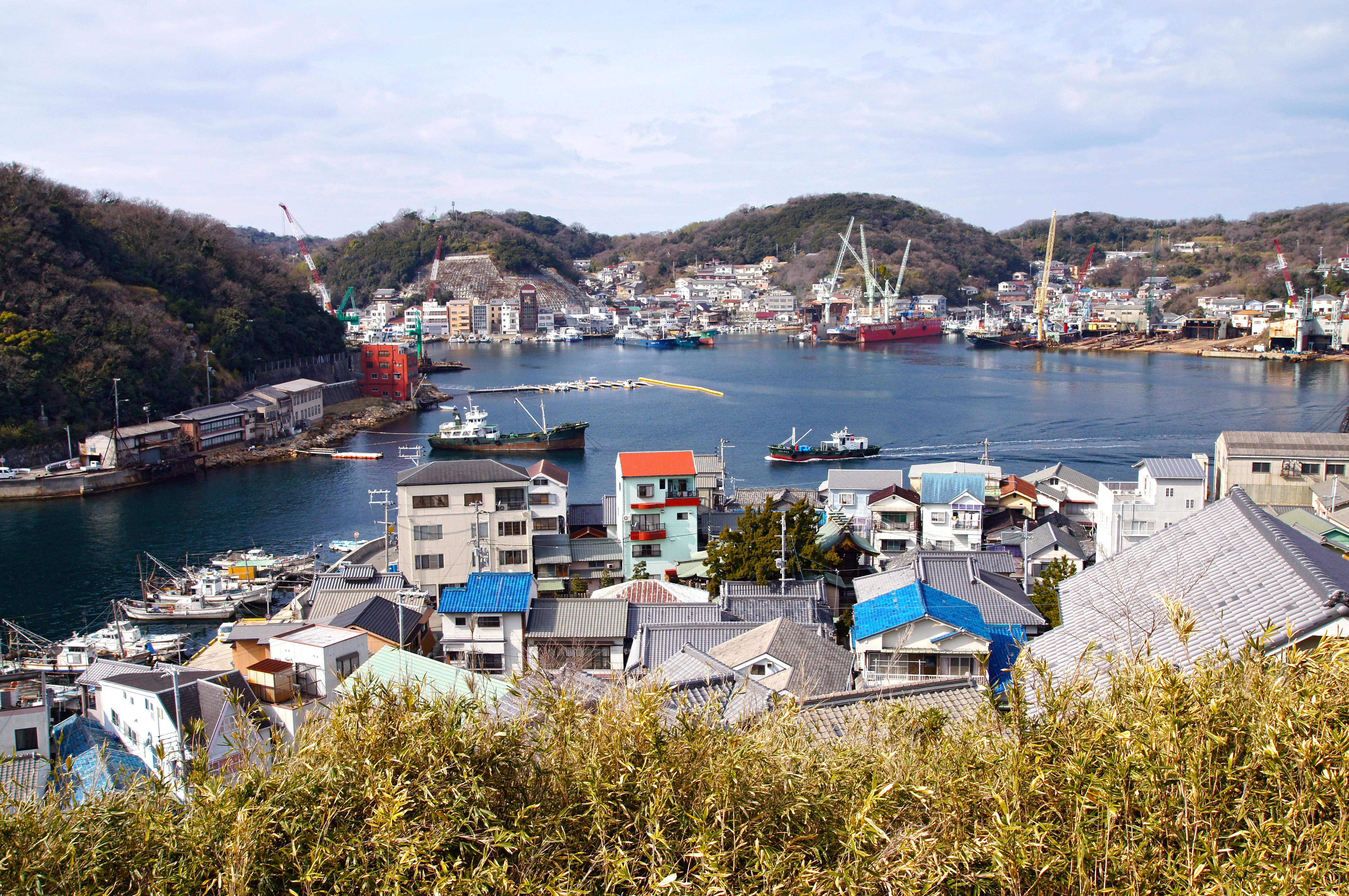 Miyaura-yahaku is one of the Ten Views of Ieshima Islands in Ieshima Island, Himeji, Hyogo prefecture, Japan.